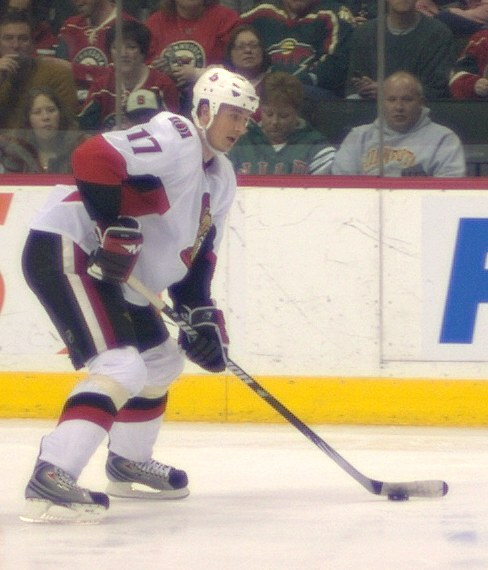 Filip Kuba, Ottawa Senators